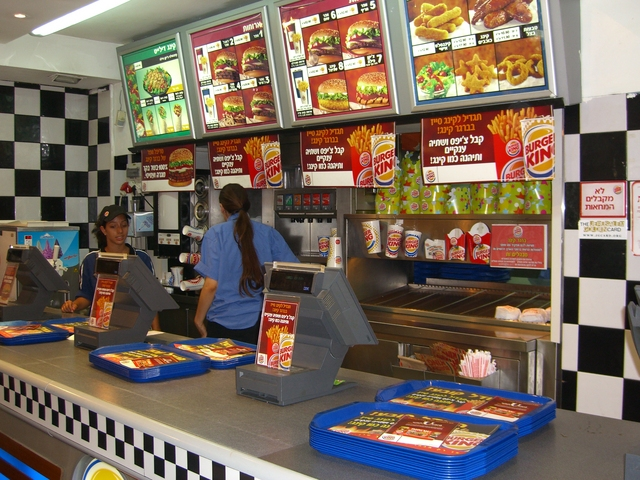 This image was taken by Ronit Slyper, who consented to it use on 3 March 2007